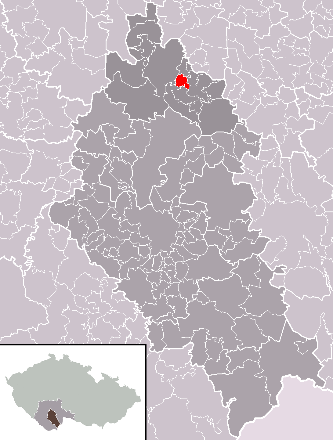 Location of Dobšice municipality within České Budějovice District and administrative area of Týn nad Vltavou as a Municipality with Extended Competence.